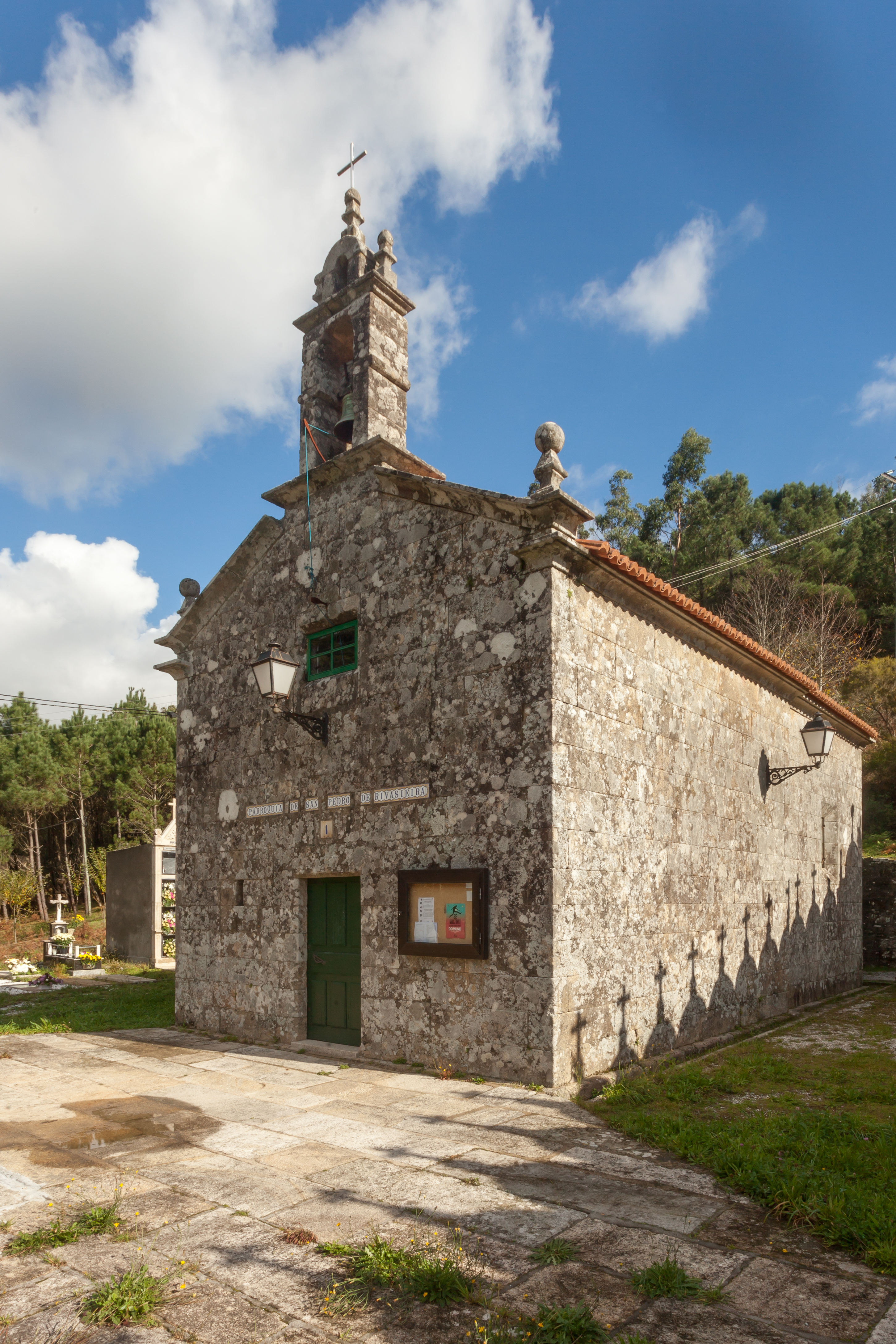 Church of Ribasieira, Porto do Son, Galicia (Spain).